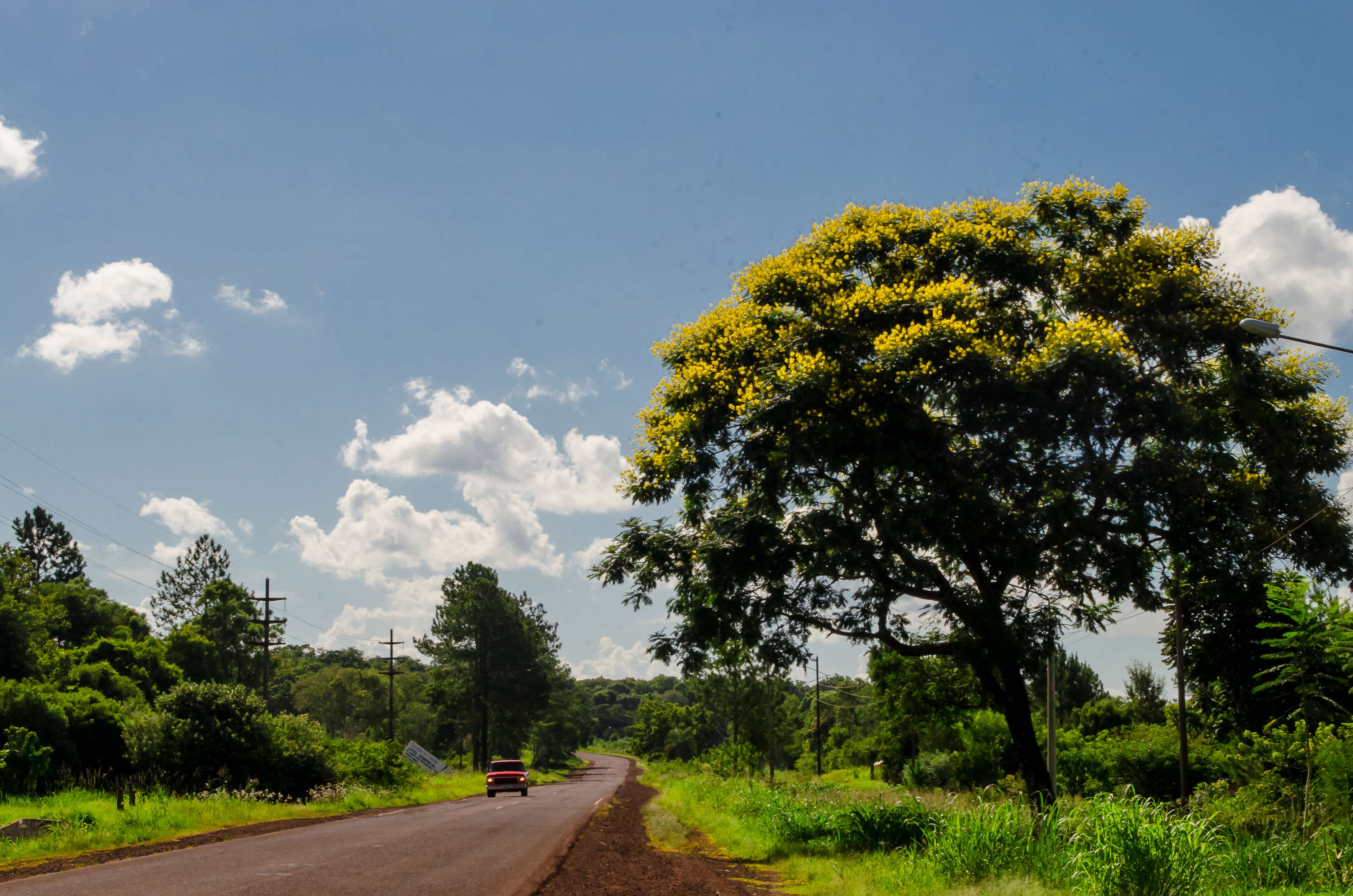 Ruta provincial 17 a la altura de 9 de julio, Misiones, Argentina.